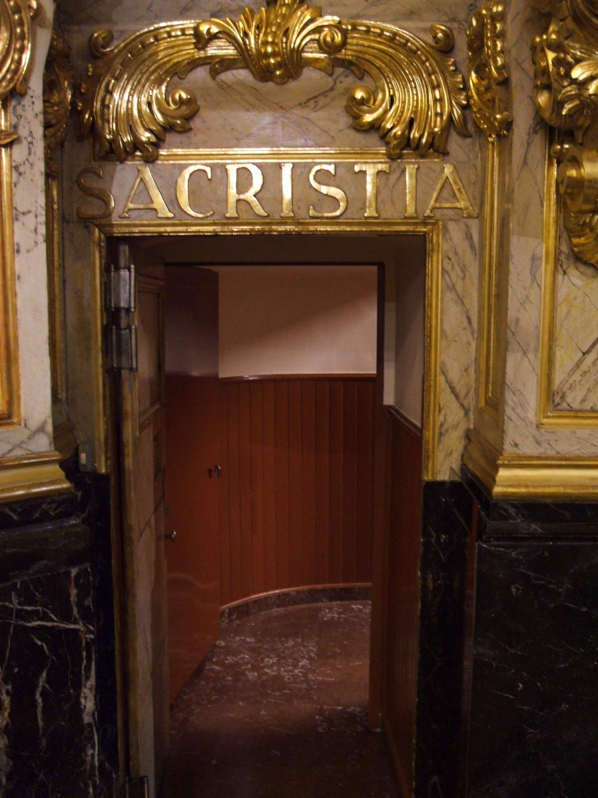 Entrada a la sacristía de la Iglesia de San Vicente de Abando, Bilbao